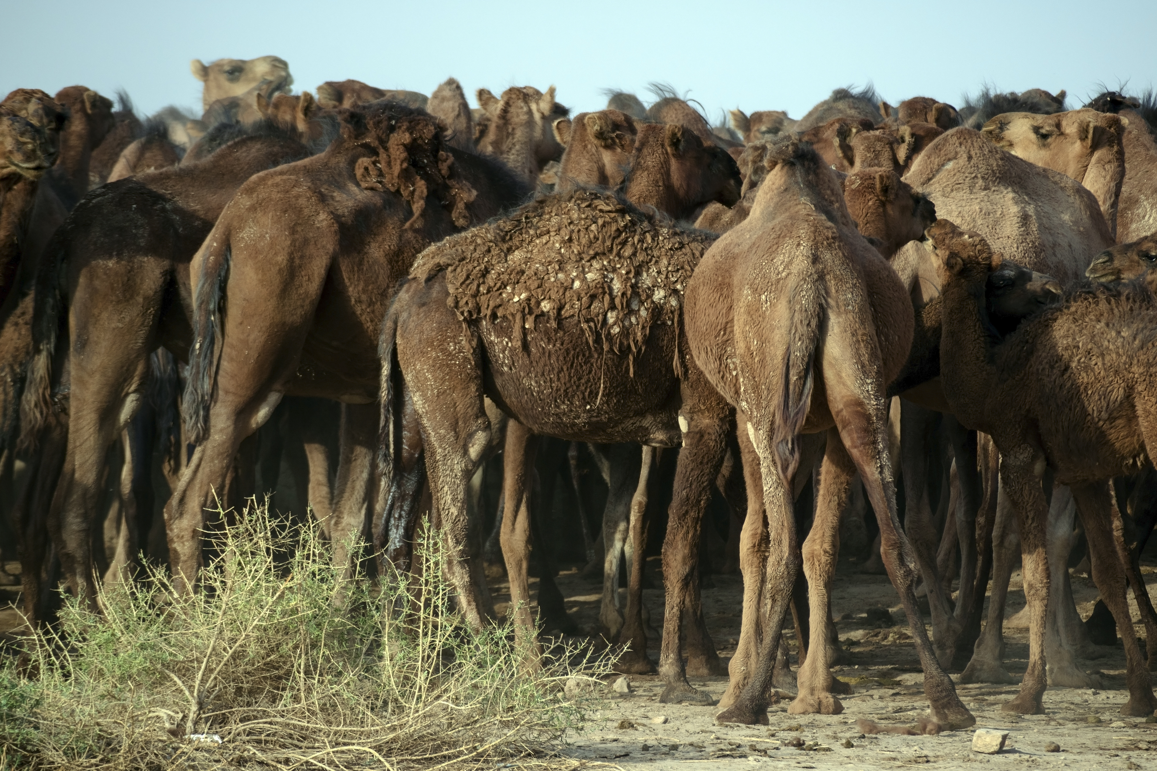 Animals are multicellular eukaryotic organisms that form the biological kingdom Animalia.